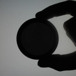 A polarizer in front of a flat screen monitor (the light from the flat screen is polarized). Continued in the pictures : Polariseur1.JPG, Polariseur2.JPG, ...